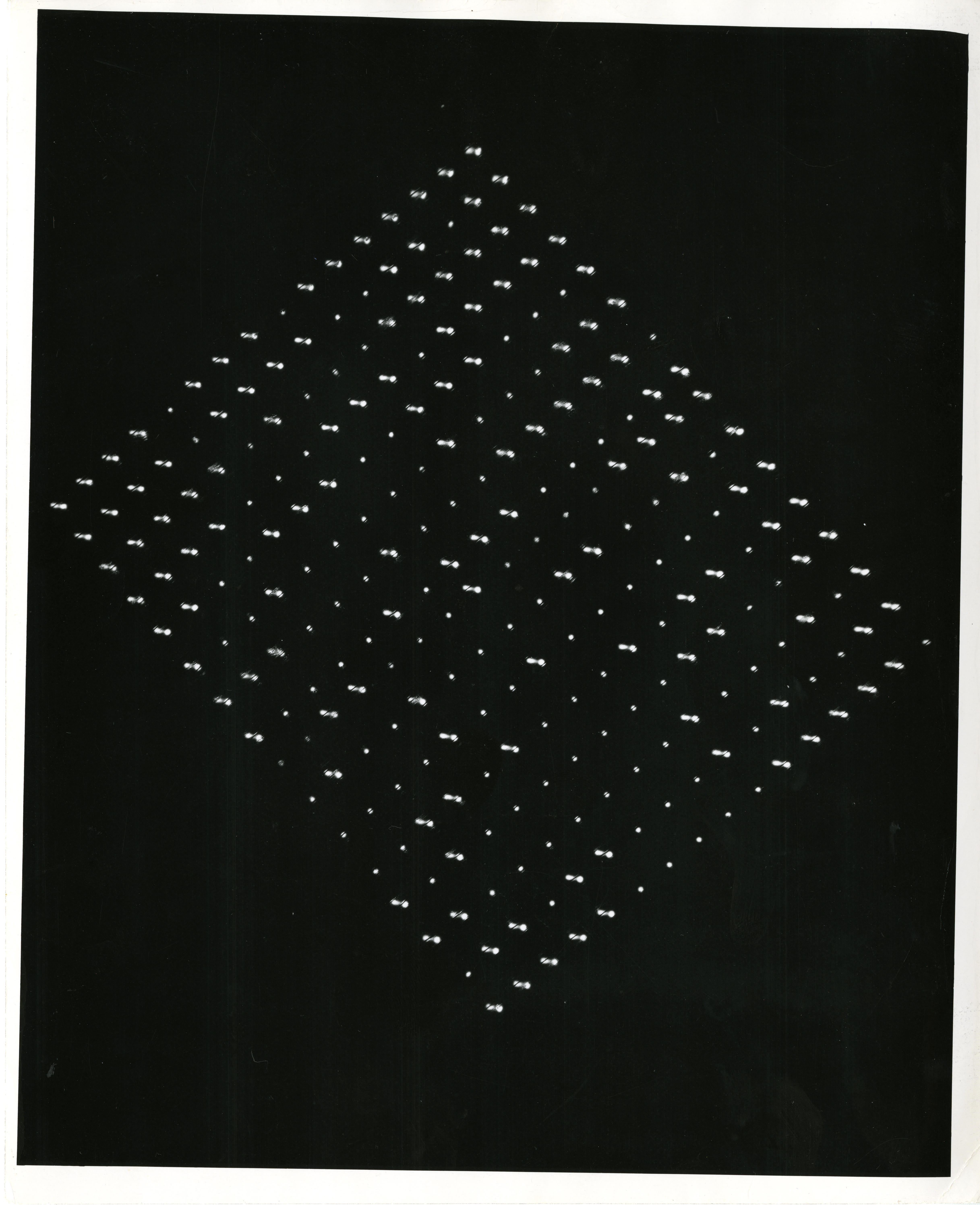 Memory pattern of dots and dashes from the face of one of the cathode-ray tube units in SWAC's Williams-tube memory